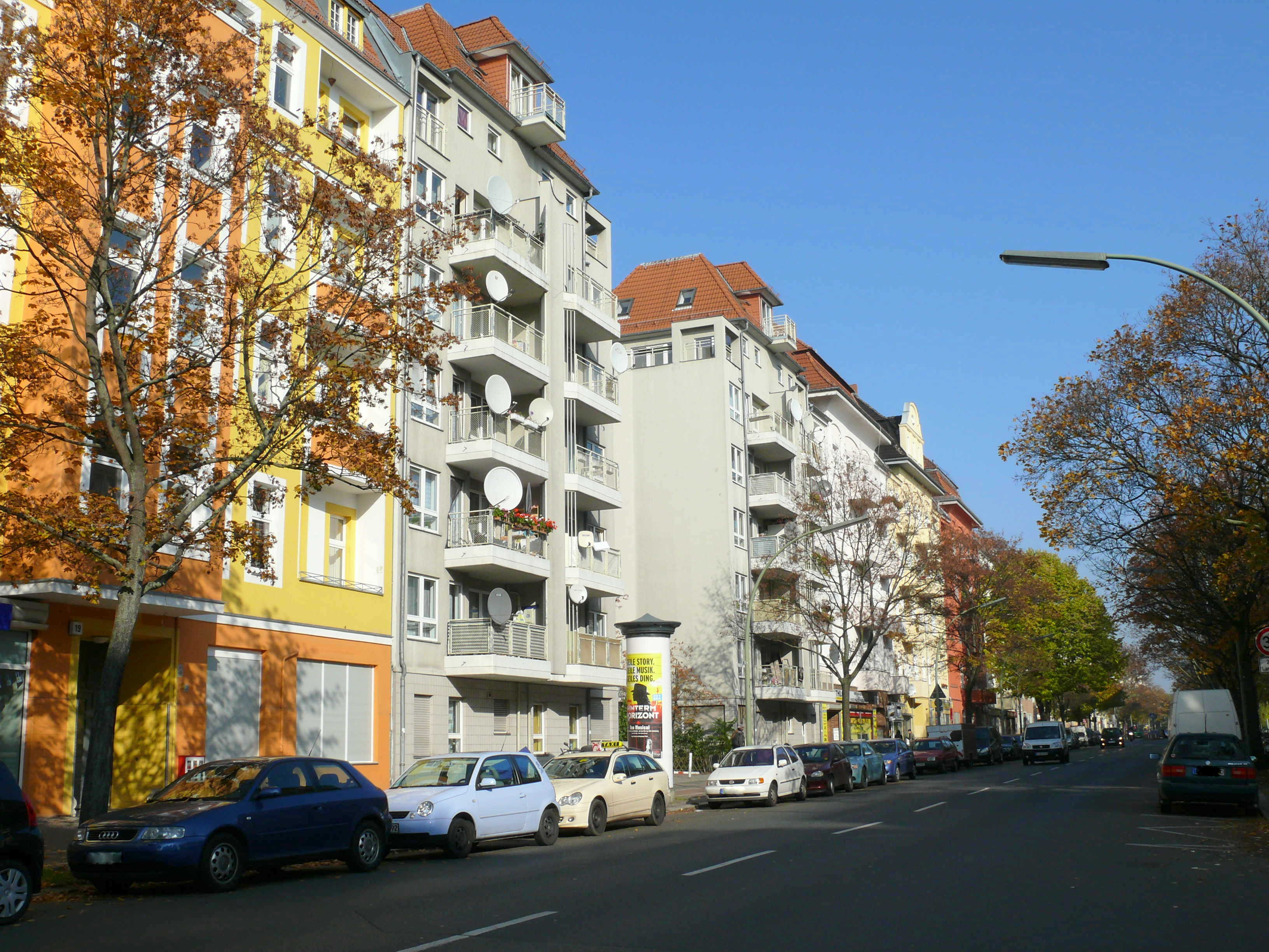 Berlin-Wedding Transvaalstraße